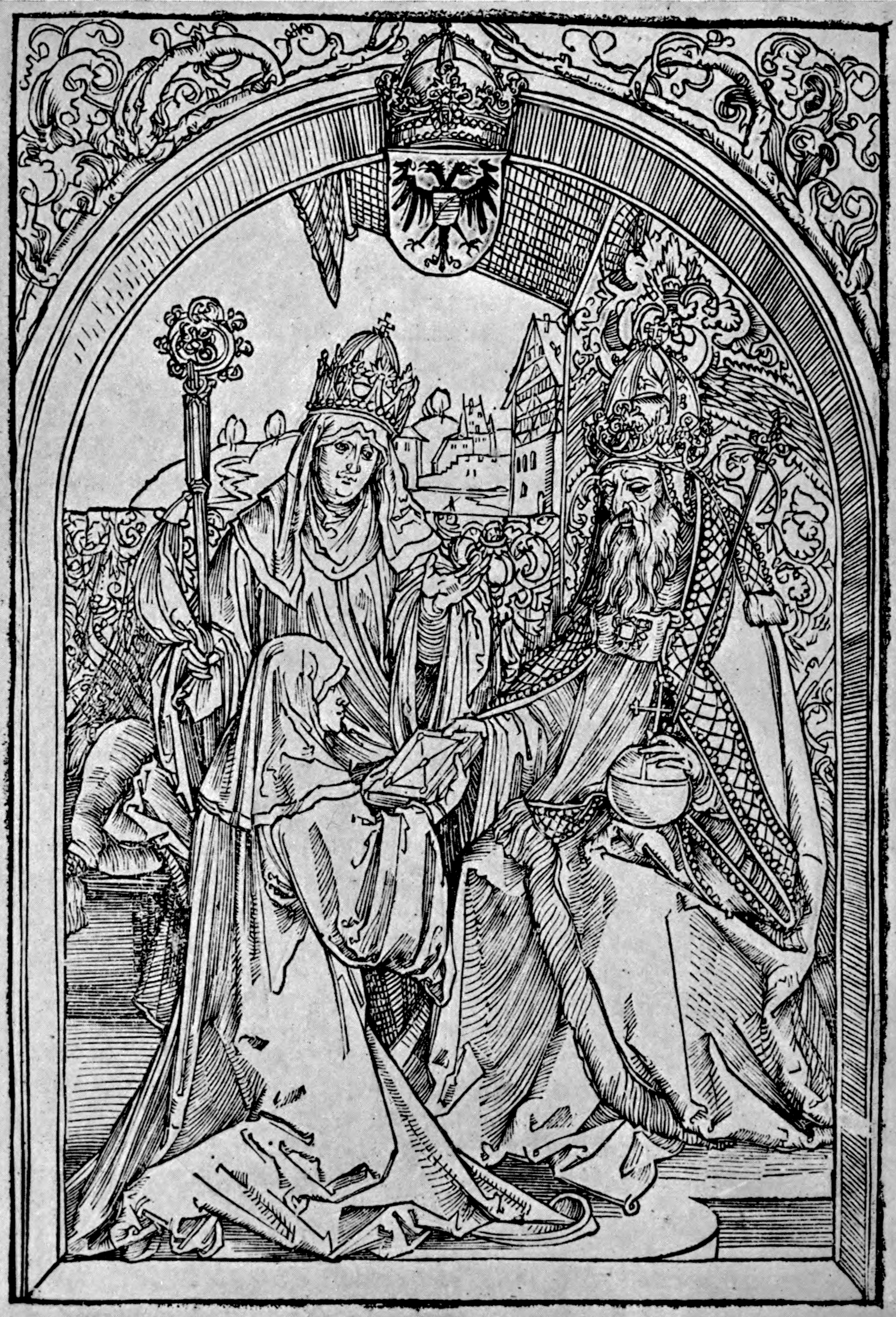 Image facing page 1; from Of Six Mediæval Women, by Alice Kemp-Welch (1913)